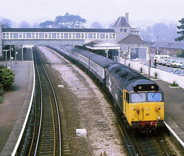 50004 Torquay (scanned)